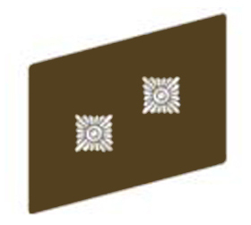 Collar tab SA-Truppführer, 1930-1945